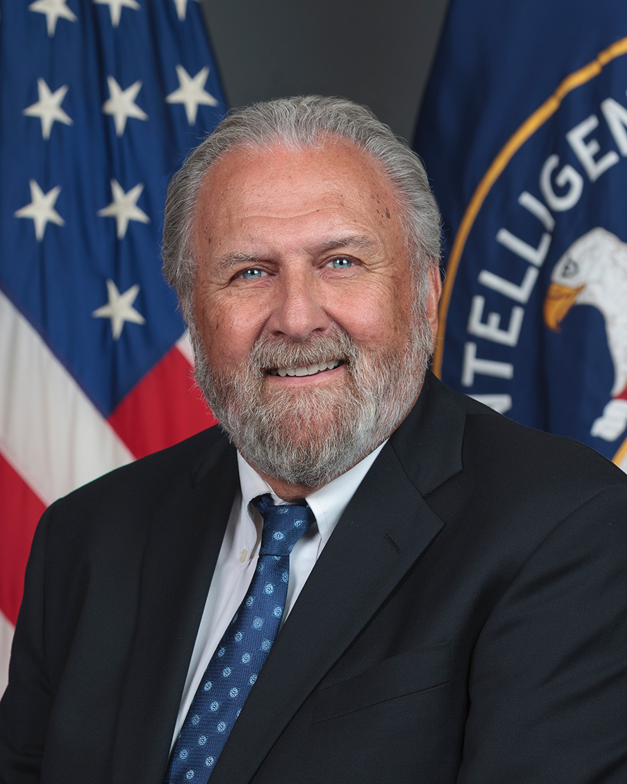 Vaughn Bishop official photo